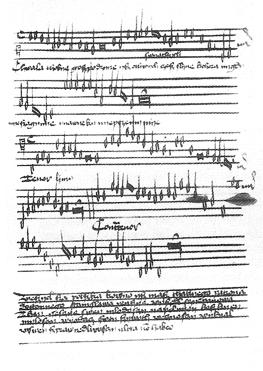 Notes of Chwała tobie, Gospodzinie from 15th century.